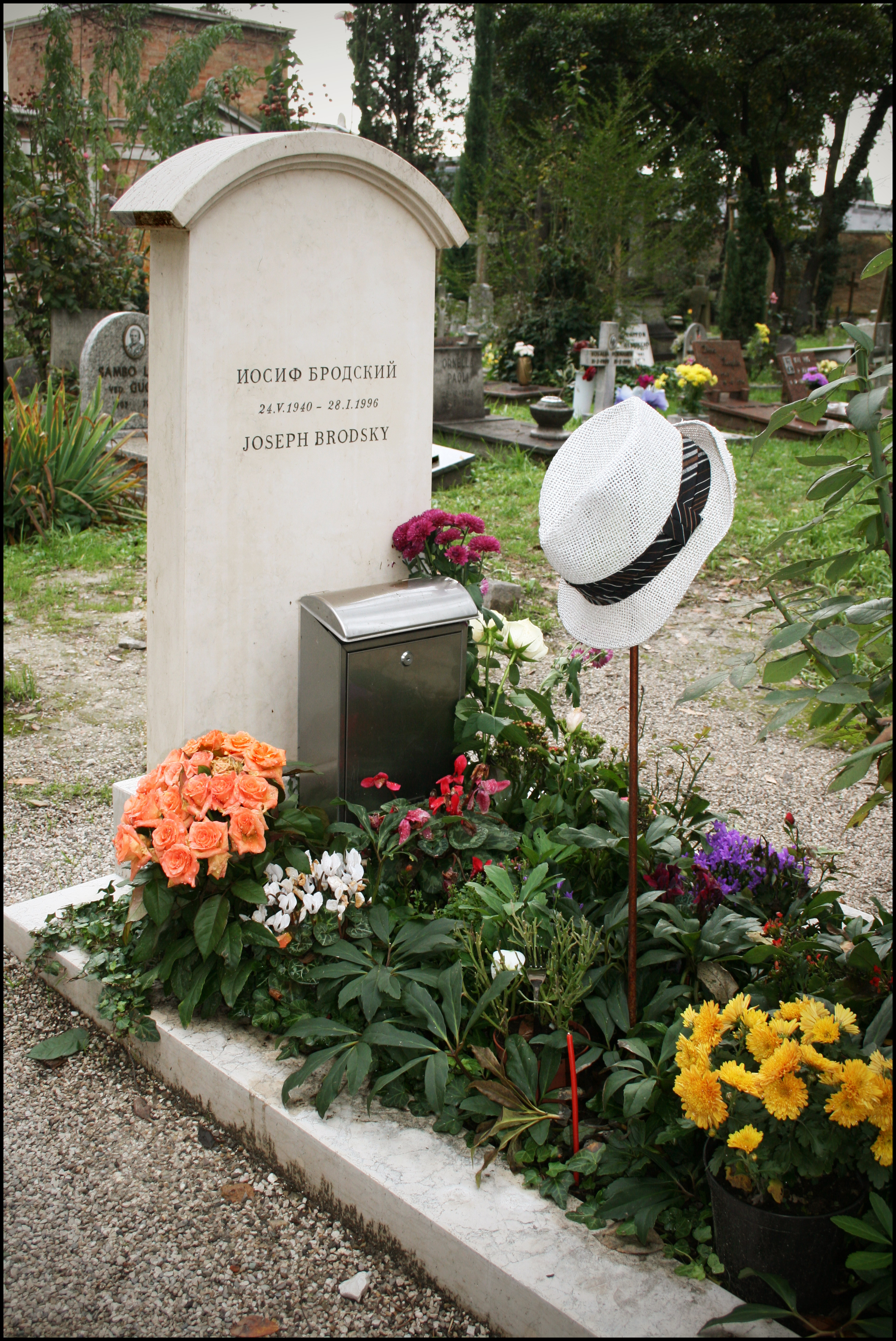 San Michele, Joseph Brodsky / Letum non omnia finit